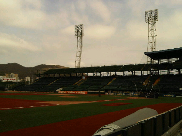 Estadio Alfonzo "Chico" Carrasquel